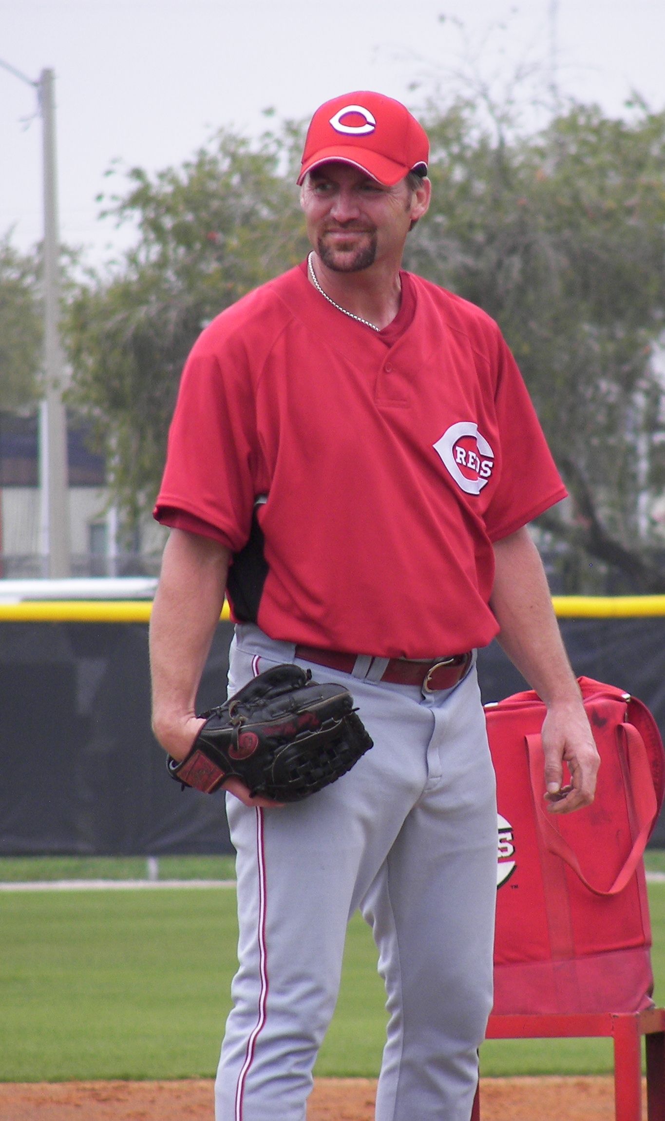 Cincinnati Reds pitcher Kent Mercker during a Spring Training workout outside Ed Smith Stadium in Sarasota, Florida.